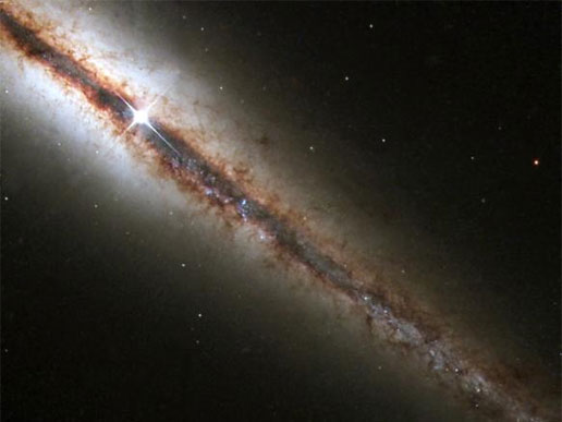 An amazing "edge-on" view of a spiral galaxy 55 million light years from Earth has been captured by the Hubble Space Telescope. The image reveals in great detail huge clouds of dust and gas extending along and above the galaxy's main disk.